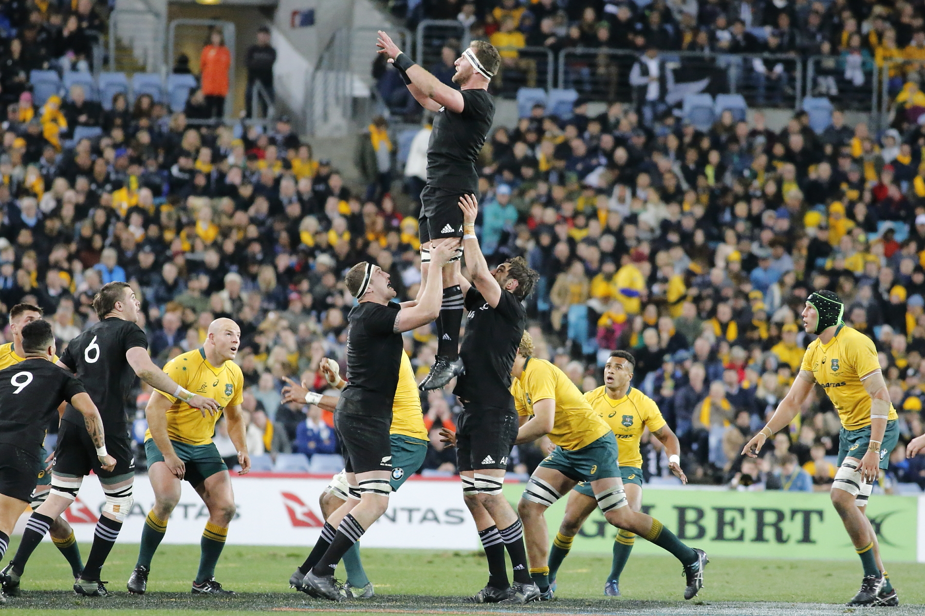 2017.08.19.20.42.04-NZL lineout-0001 2017 Rugby Championship, Bledisloe 1, Australia vs New Zealand, 19th August, ANZ Stadium, Sydney